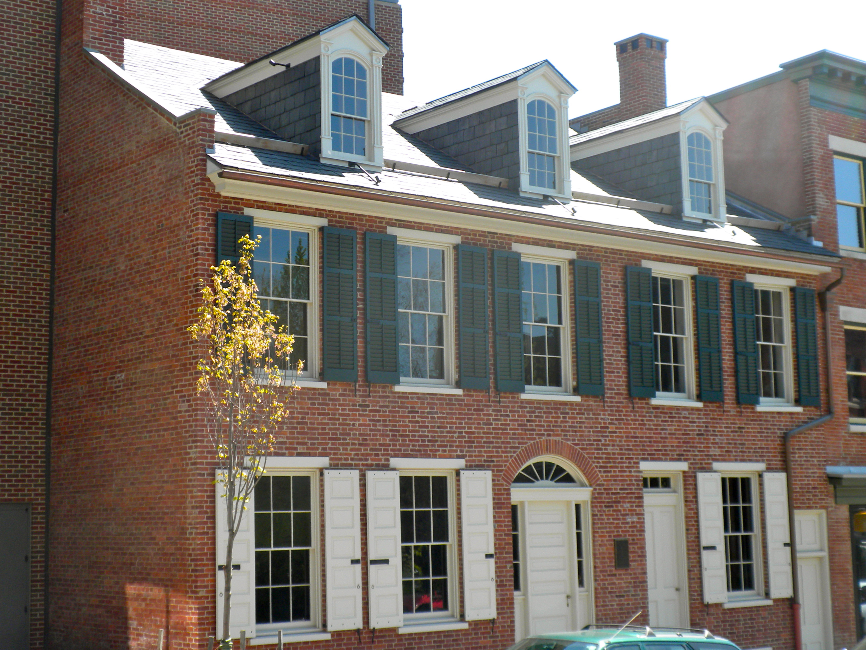 Thaddeus Stevens House in Lancaster, Pennsylvania on Prince Street, south of the Convention Center near the central square and the Southern Farmers Market. Stevens was the leader of the Radical Republicans during the Civil War and before